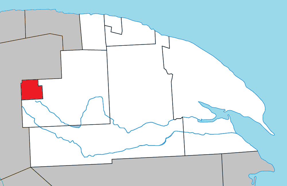 Location of Murdochville, Quebec within La Côte-de-Gaspé Regional County Municipality.